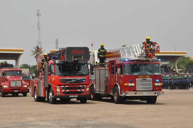 Ghana National Fire and Rescue Service (GNFRS) at the Ghana 59th Independence Day Celebrations.